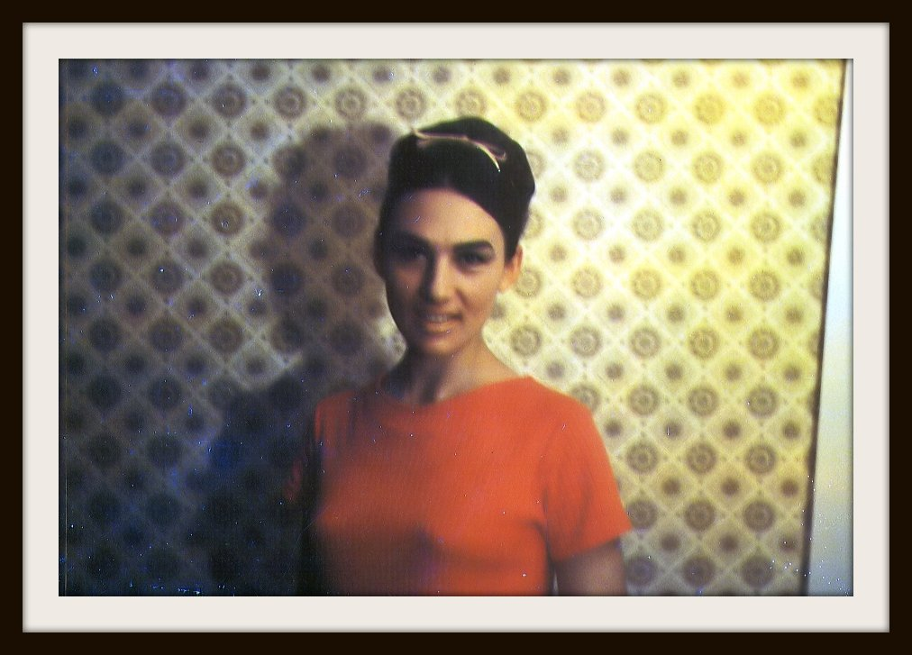 Typical 1960s wallpaper and female fashion